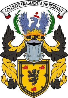 The CBSI coat of arms was granted by the Court of the Lord Lyon in 2002